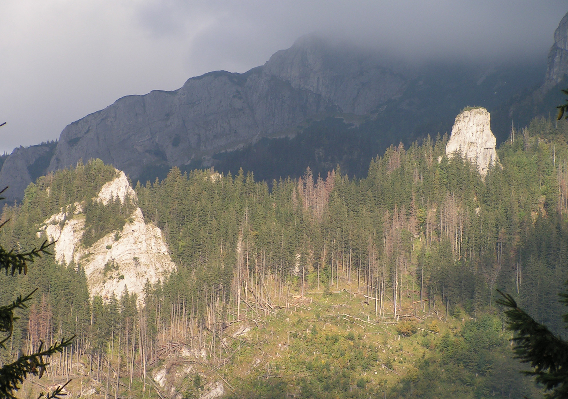 A part of north-western ridge of Muráň (Polish: Murańskie Kopki – left, Murańska Turnia – right).